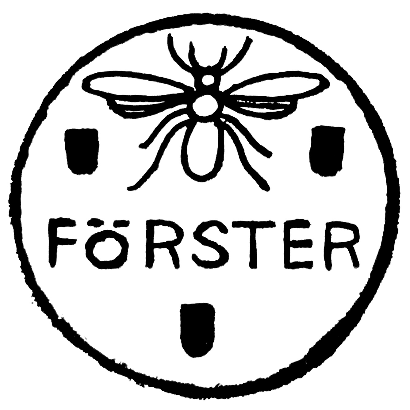 A. Förster & Co. Logo